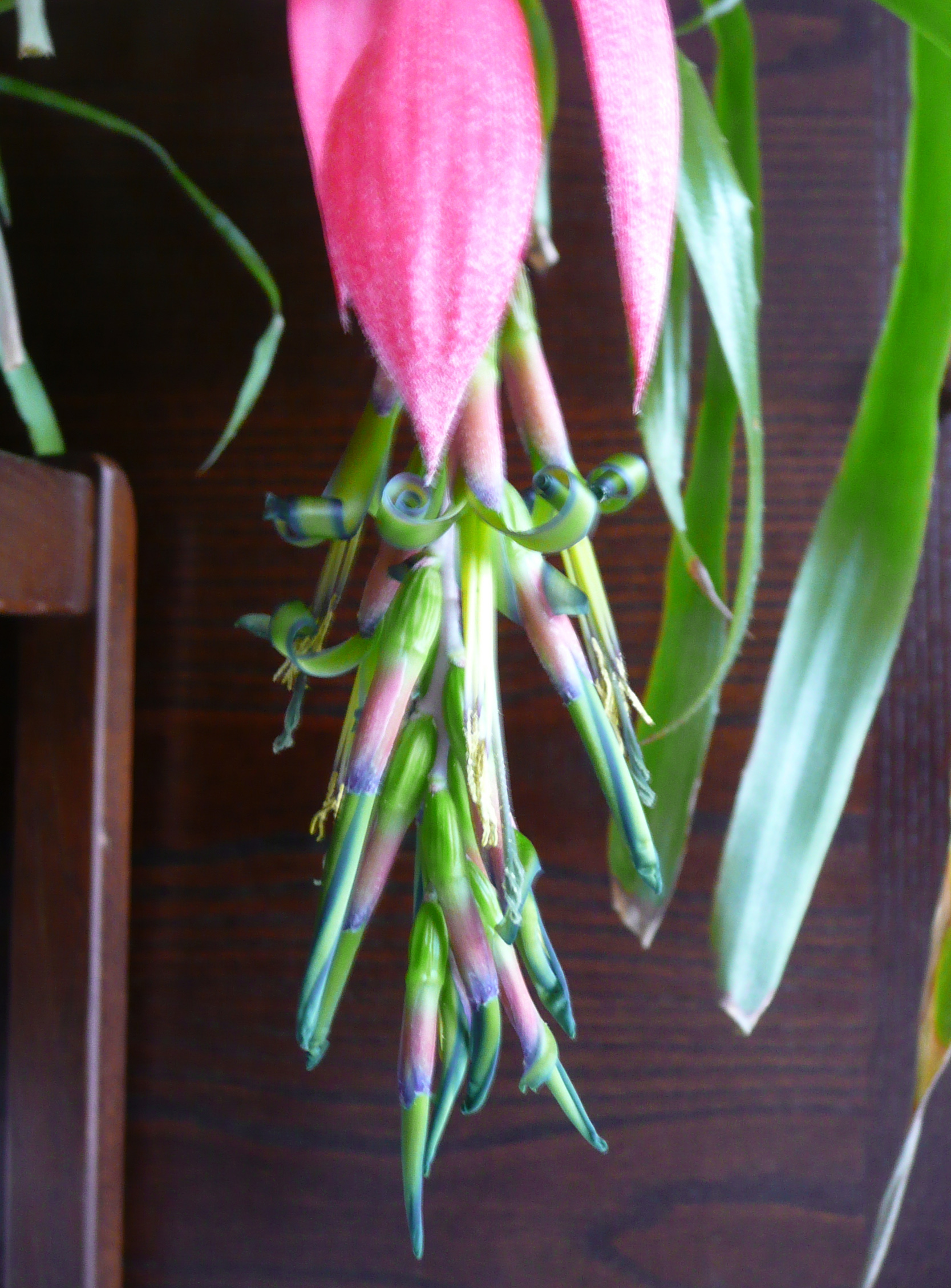 Billbergia nutans